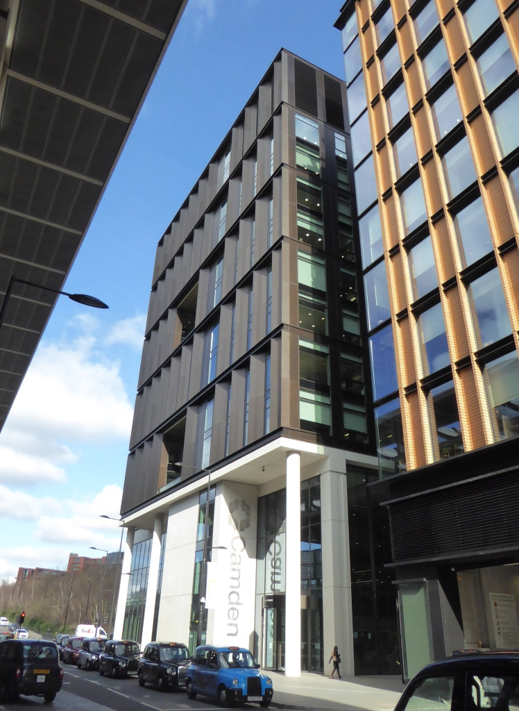 5 Pancras Square, this building houses a swimming pool, gym, council contact centre, cafe and library. So busy when I visited, the only table space was in the cafe.